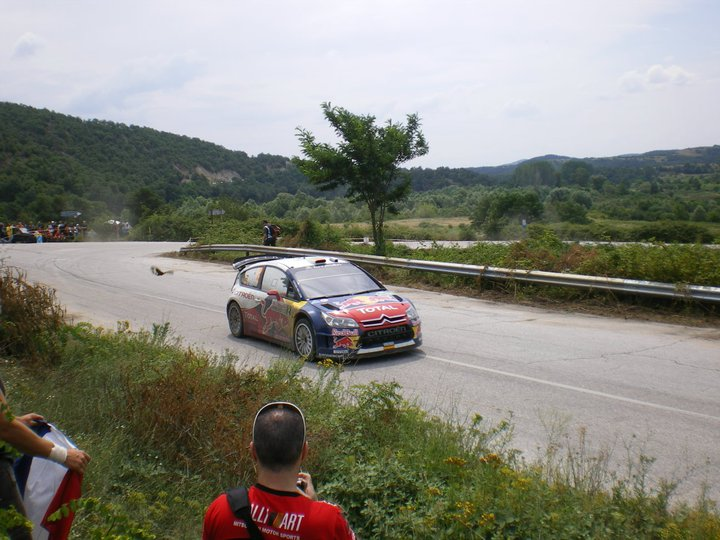 Dani Sordo - 2010 Rally Bulgaria